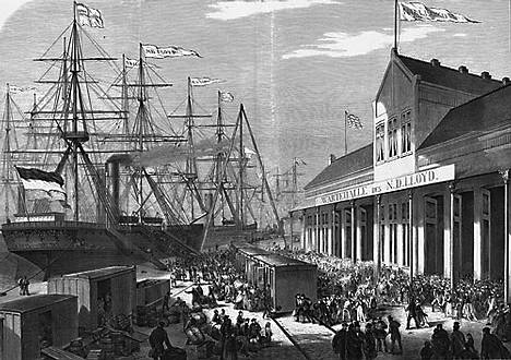 The new waiting hall of the shipping company Norddeutscher Lloyd in Bremerhaven, Germany